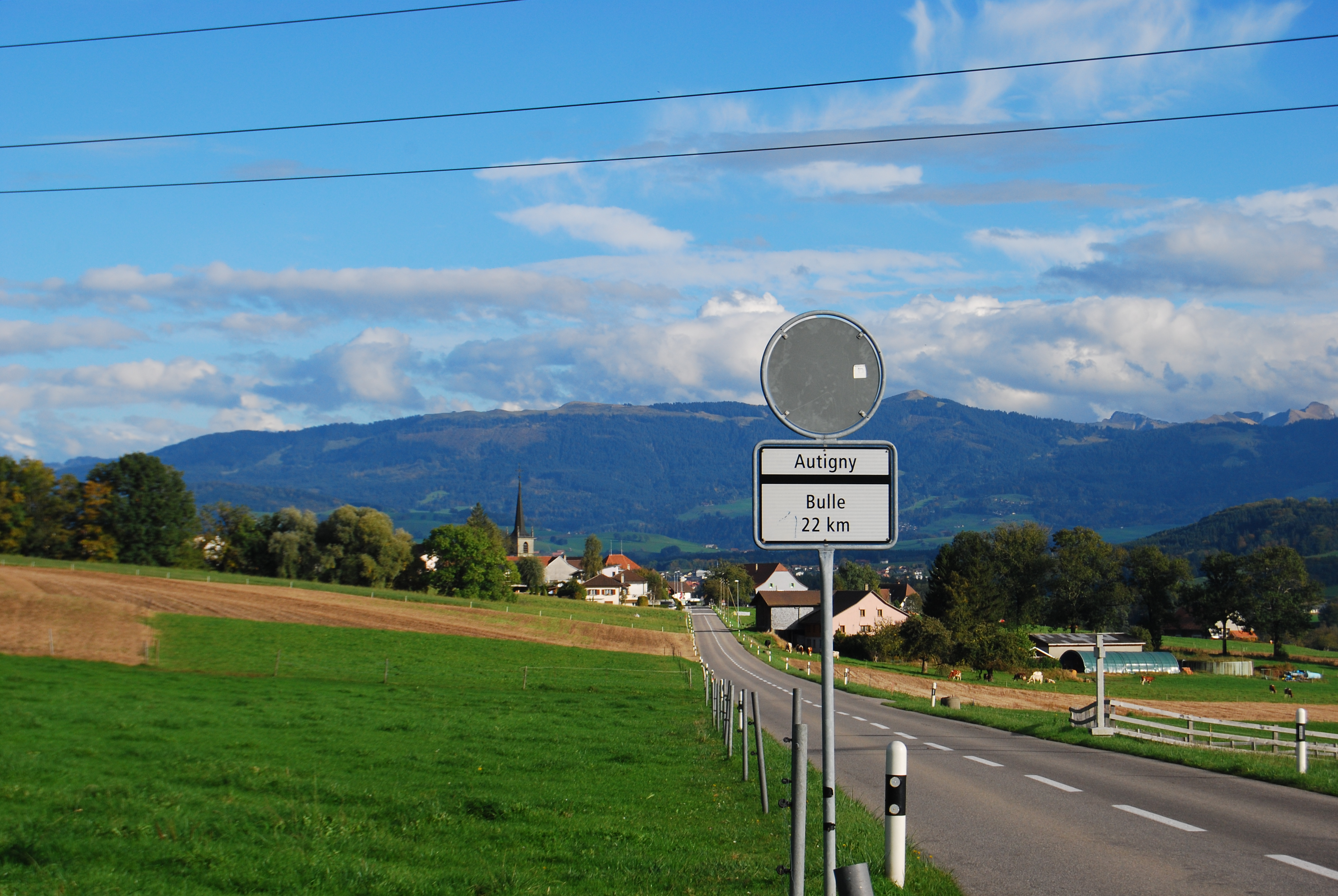 Autigny, canton of Fribourg, SwitzerlandEsperanto: Autigny, Kantono Friburgo, Svislando